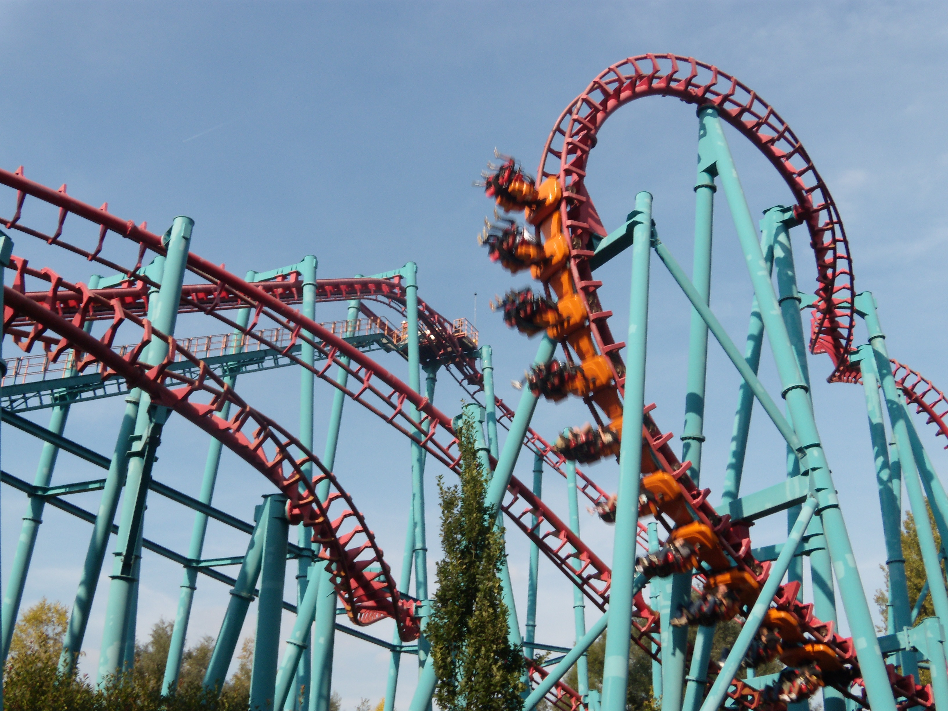 Vampire, Walibi Belgium, Belgium.